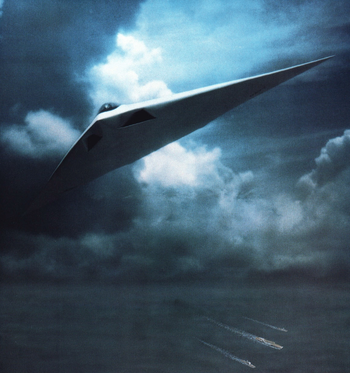 An artist's concept of the McDonnell Douglas A-12 Avenger II aircraft, then under development as the U.S. Navy's advanced attack aircraft for the 21st century.